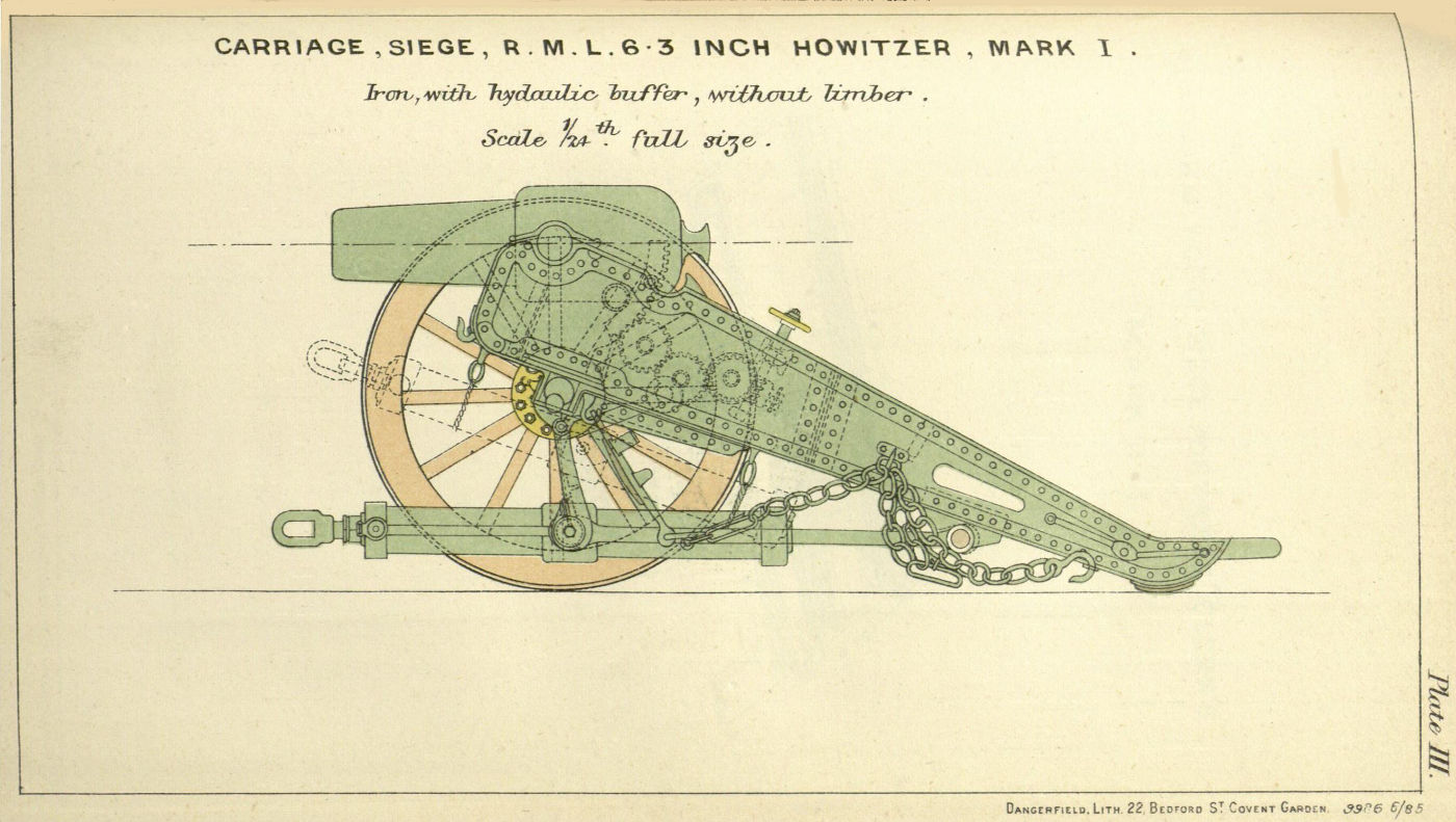 Left elevation diagram showing British RML 6.3-inch howitzer on Mark I siege carriage.